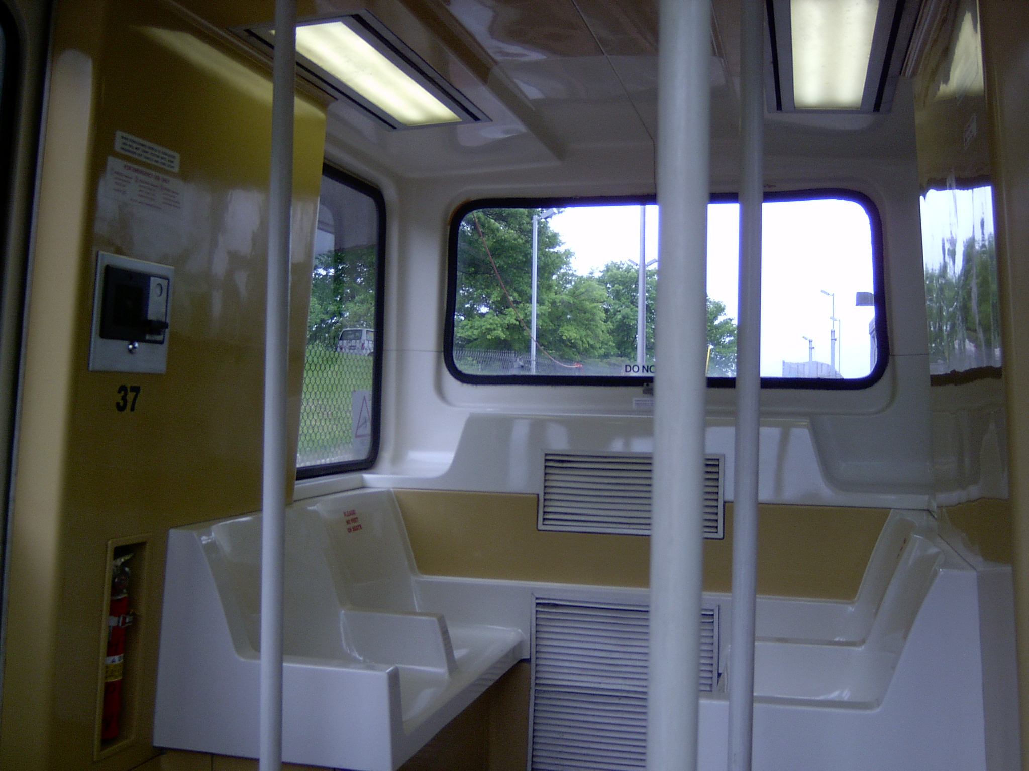 Morgantown PRT car interior.